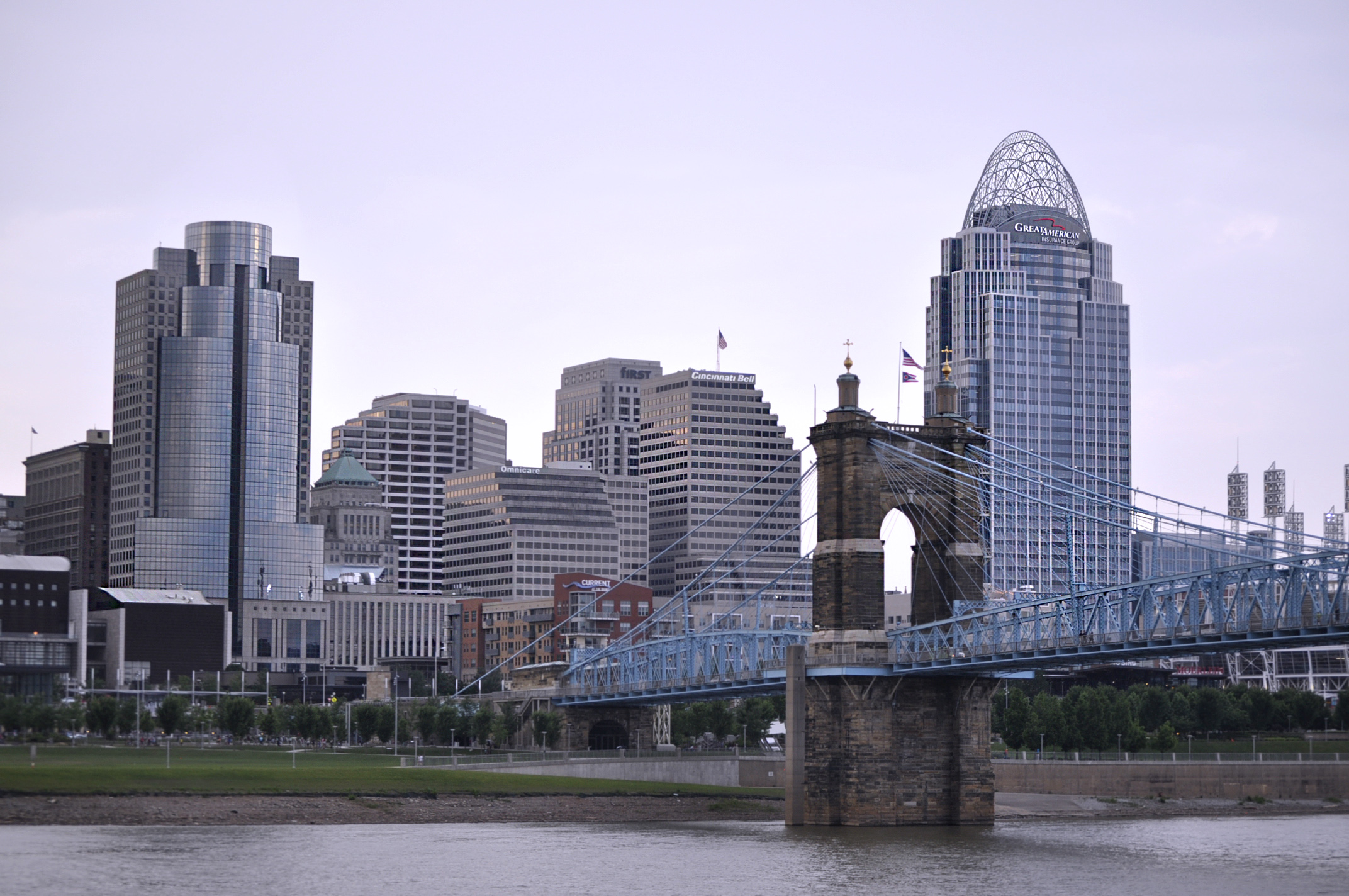 Downtown Cincinnati with the Roebling Suspension Bridge in the foreground.